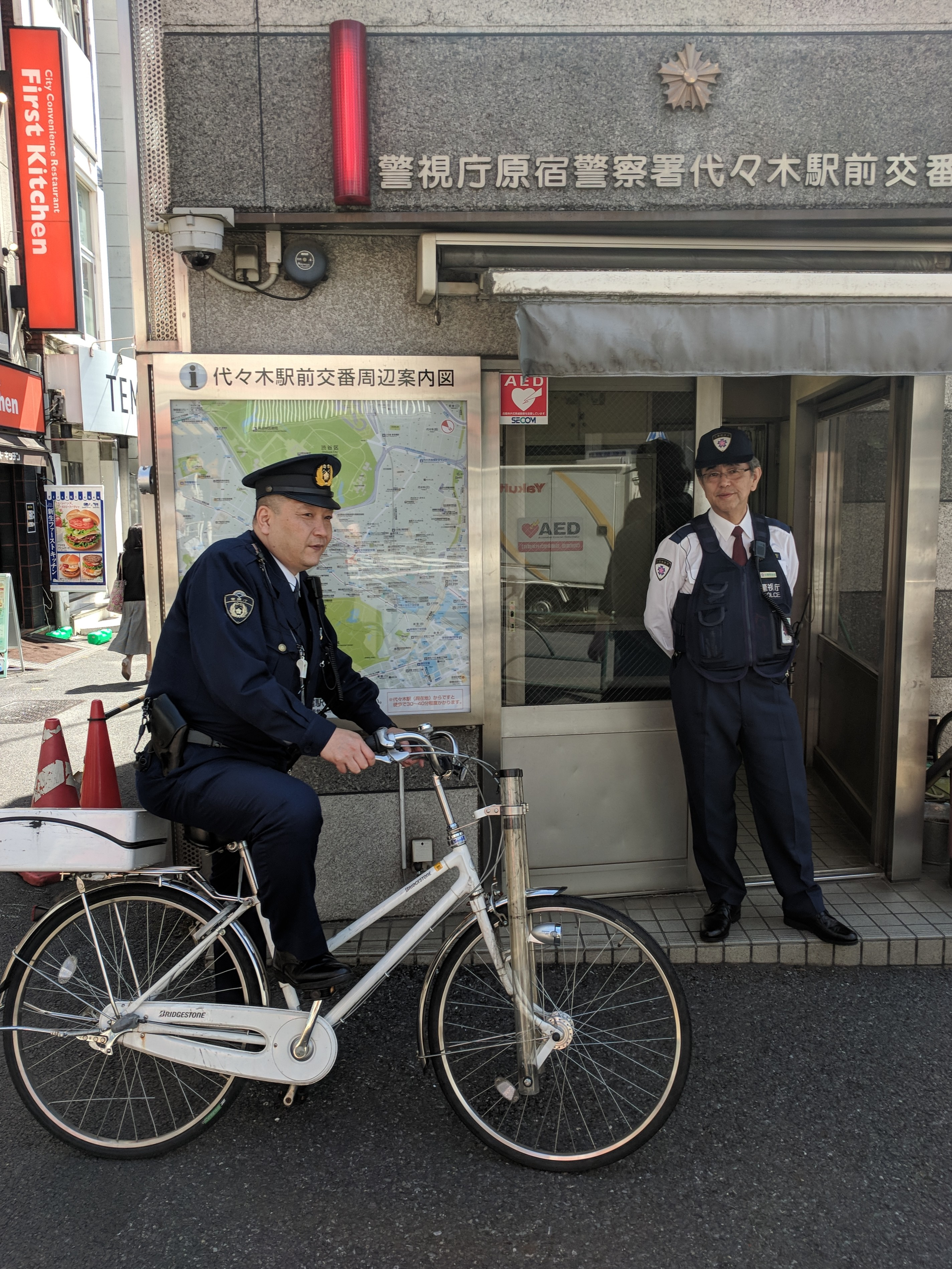 Two police officers, one on a bicycle, near Shibuya station.